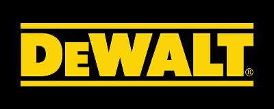 This is a logo for DeWalt.